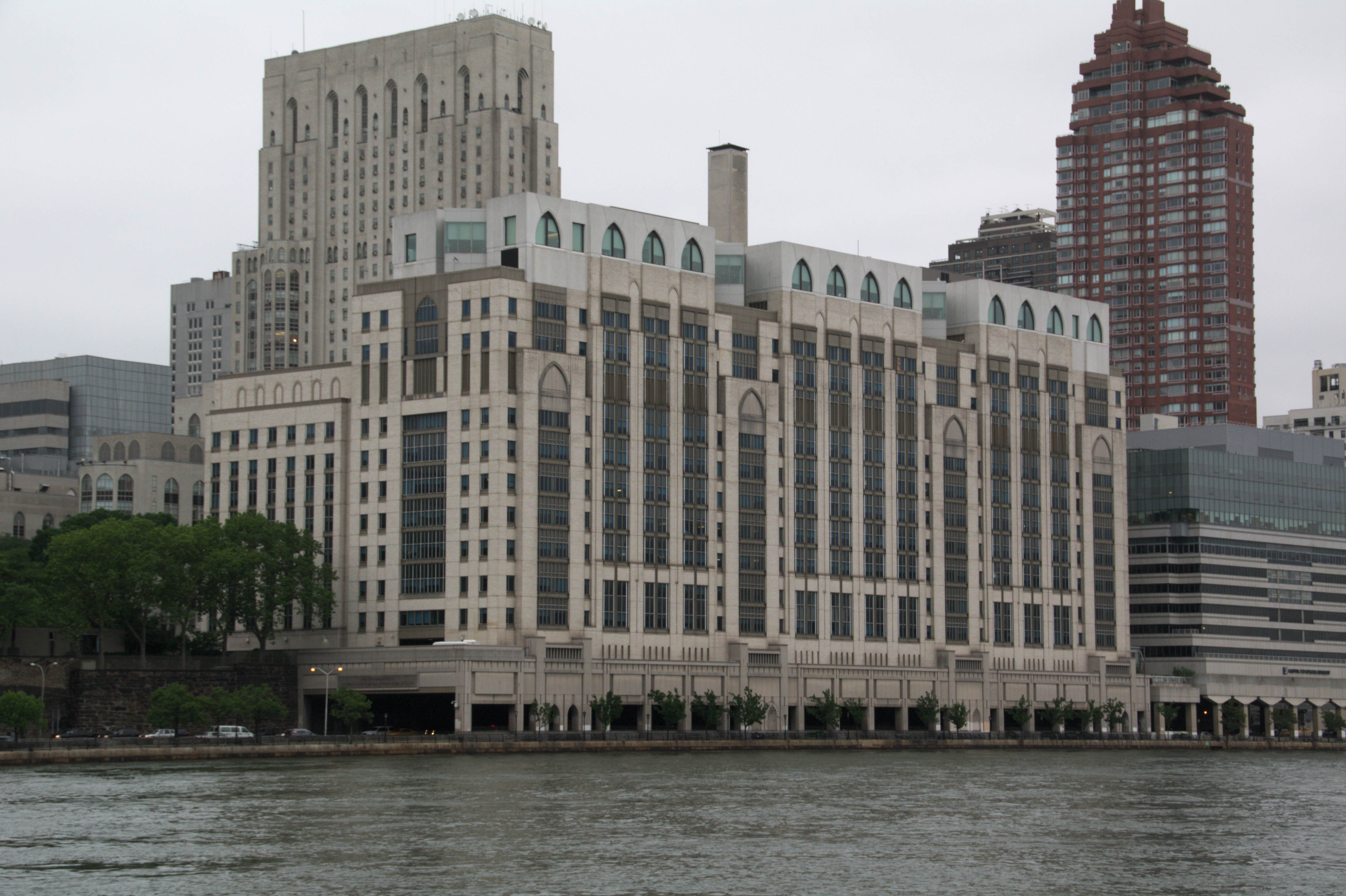 A picture of Weill Cornell Medical Center New York Presbyterian pictured from the east river.